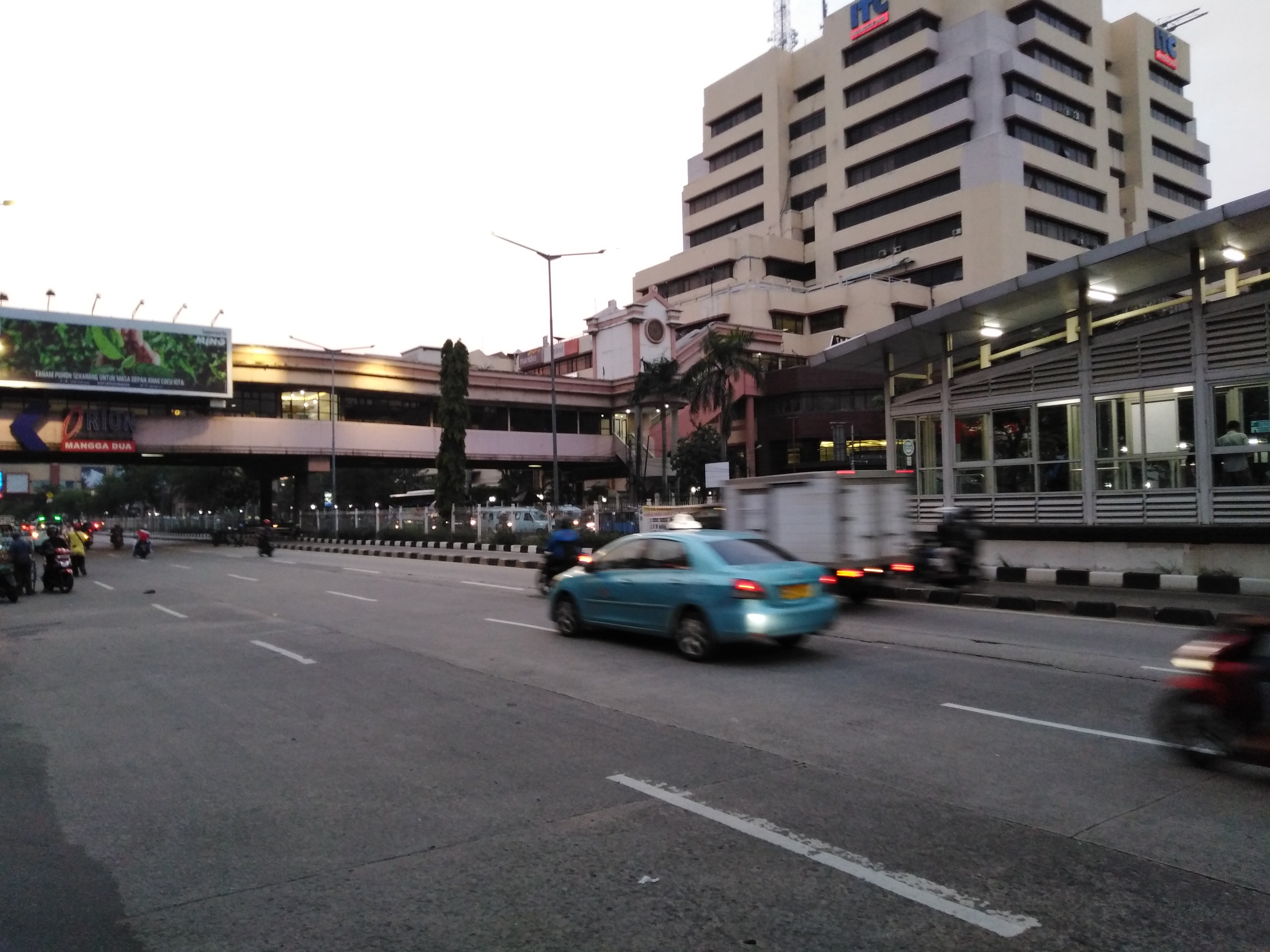 Mangga Dua Square in Jakarta